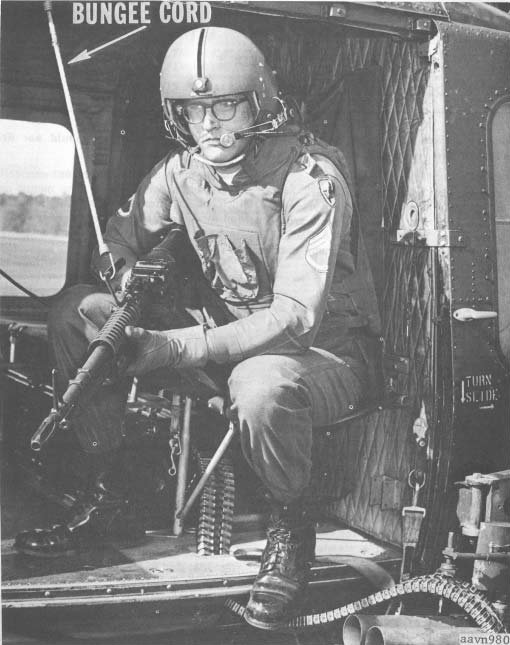 Picture of "Free Door Gunner"